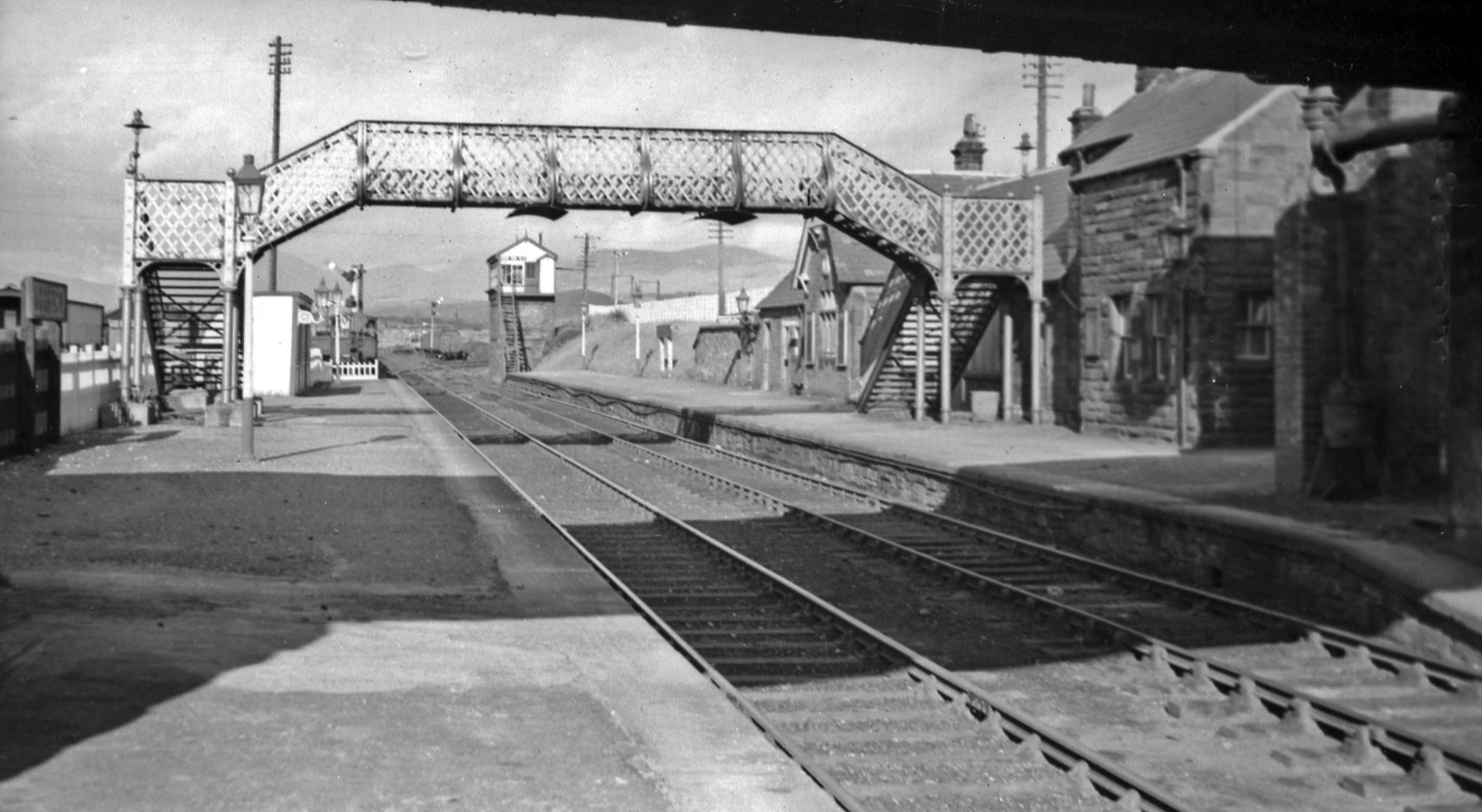 Moor Row station, ex-Whitehaven, Cleator & Egremont Railway 1952View east on the station, under the B5294 bridge, relatively intact although closed to passengers for five years; for details see NY0014 : Moor Row station, ex-Whitehaven, Cleator & Egremont Railway 1954.